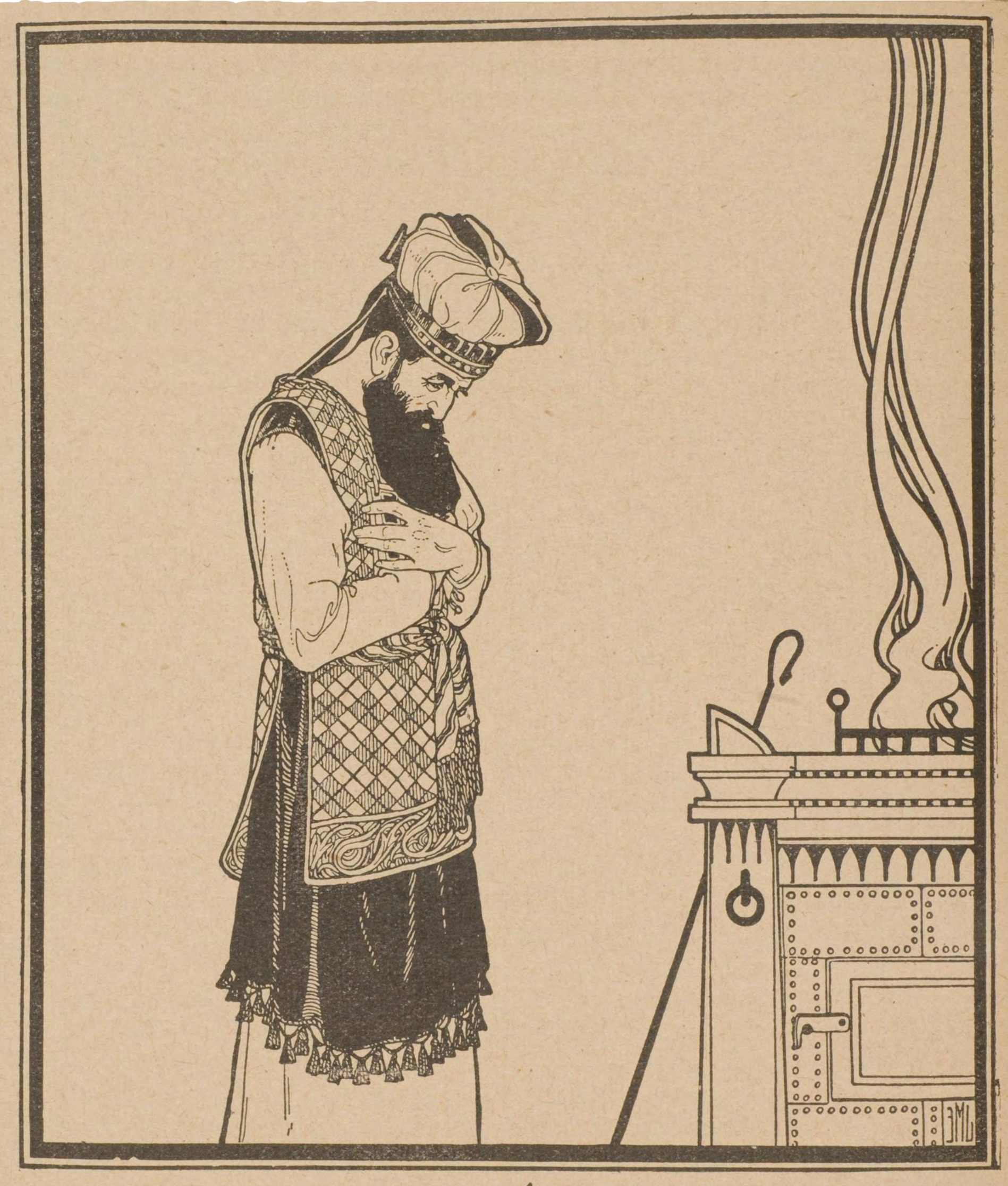 The high priest Aaron.